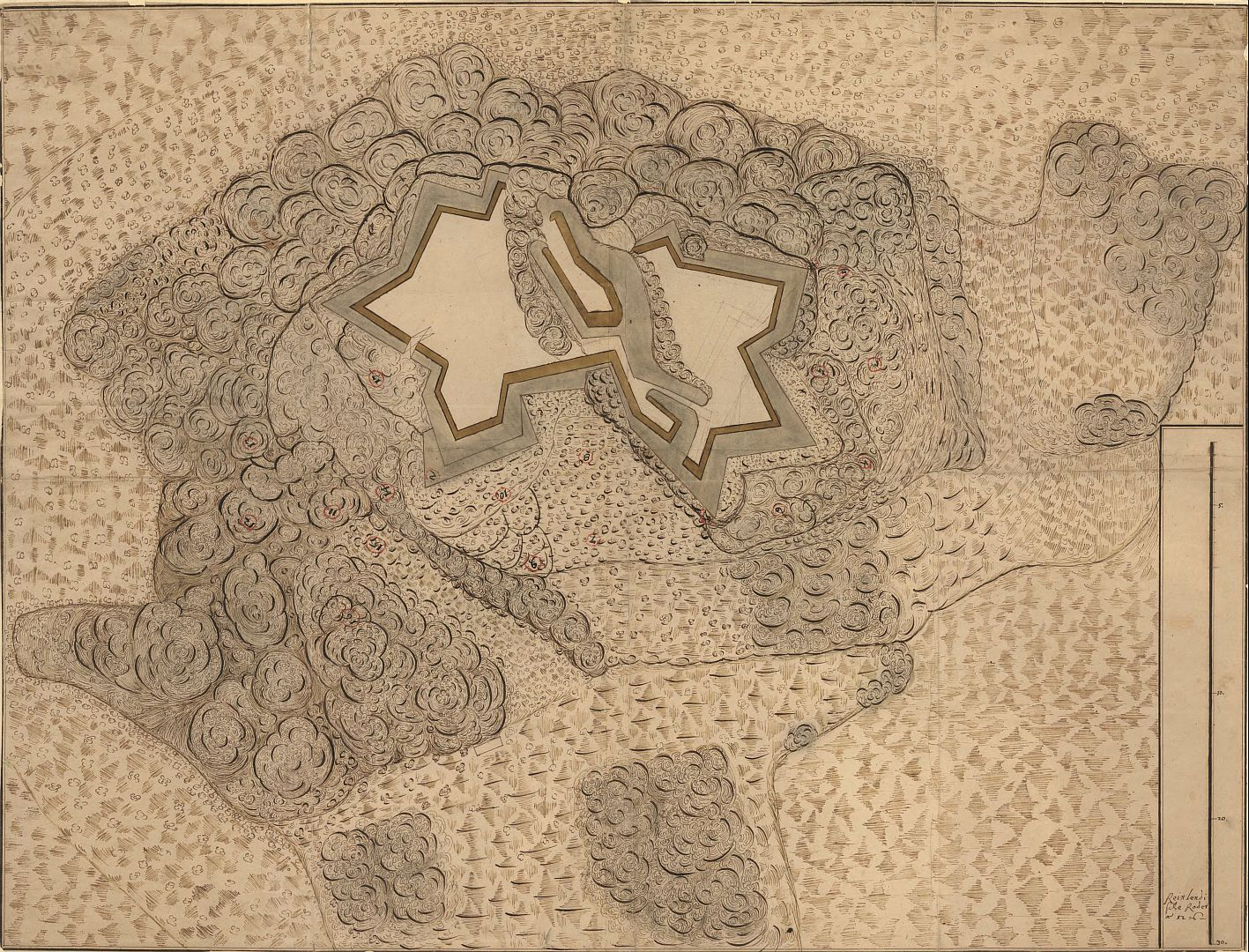 Risås sconce Gothenburg, Sweden approximately 1650.